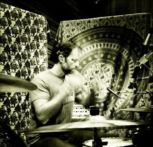 Crushing it